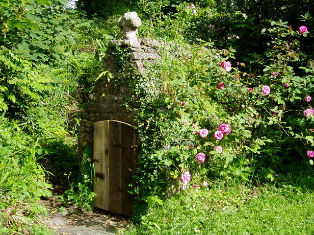 Photograph